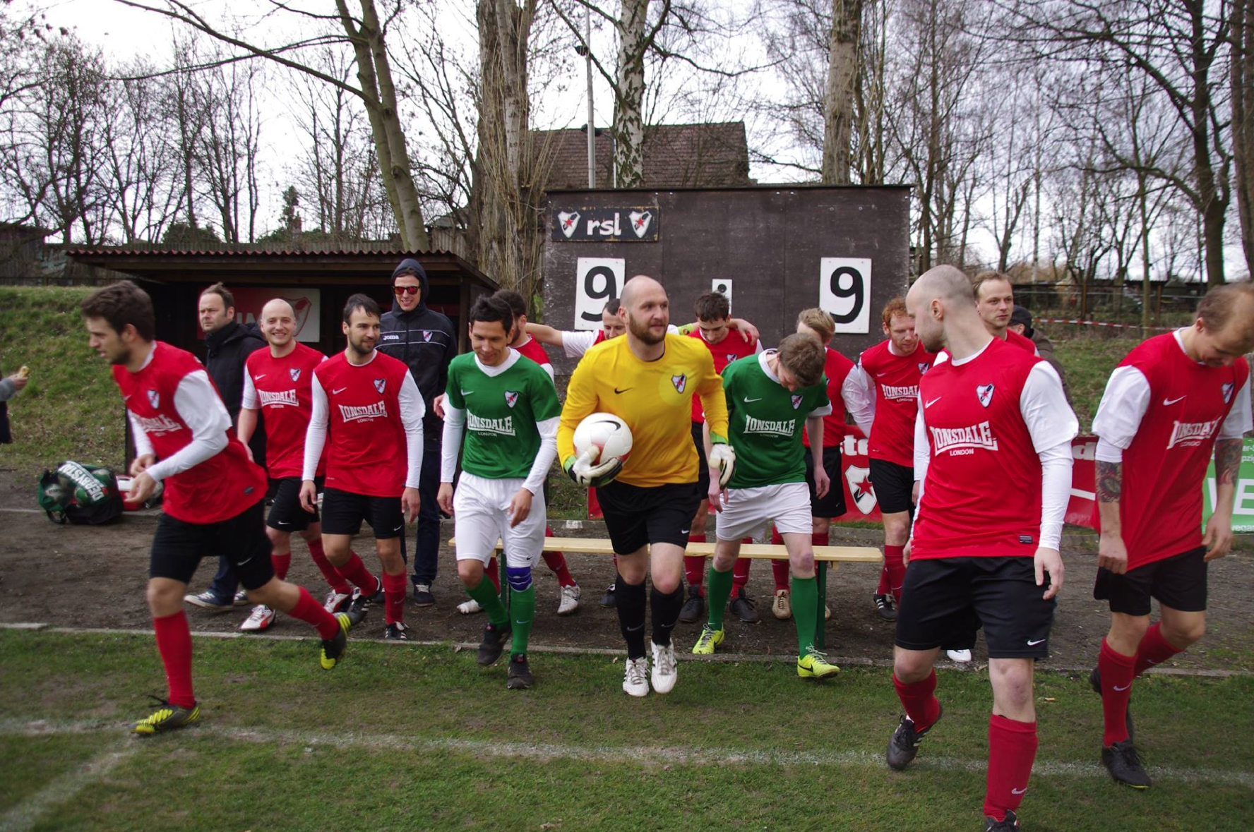 red star leipzig player